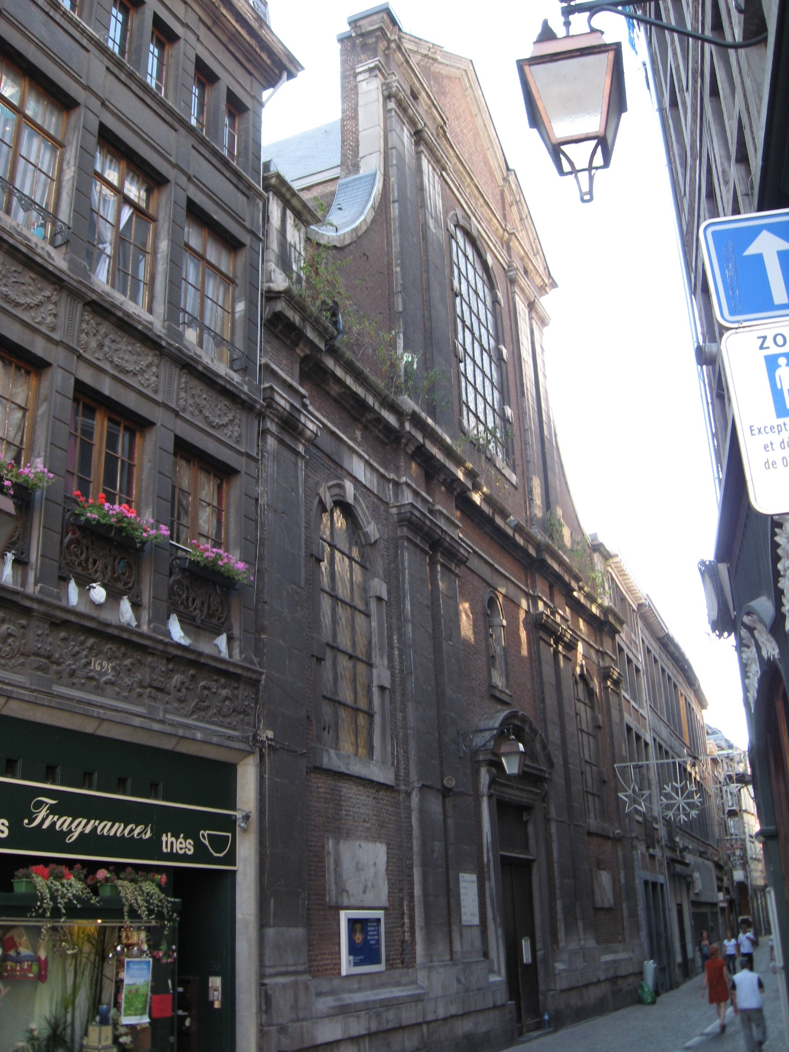 Church of Saint Catherine in Liège, Liège, Belgium